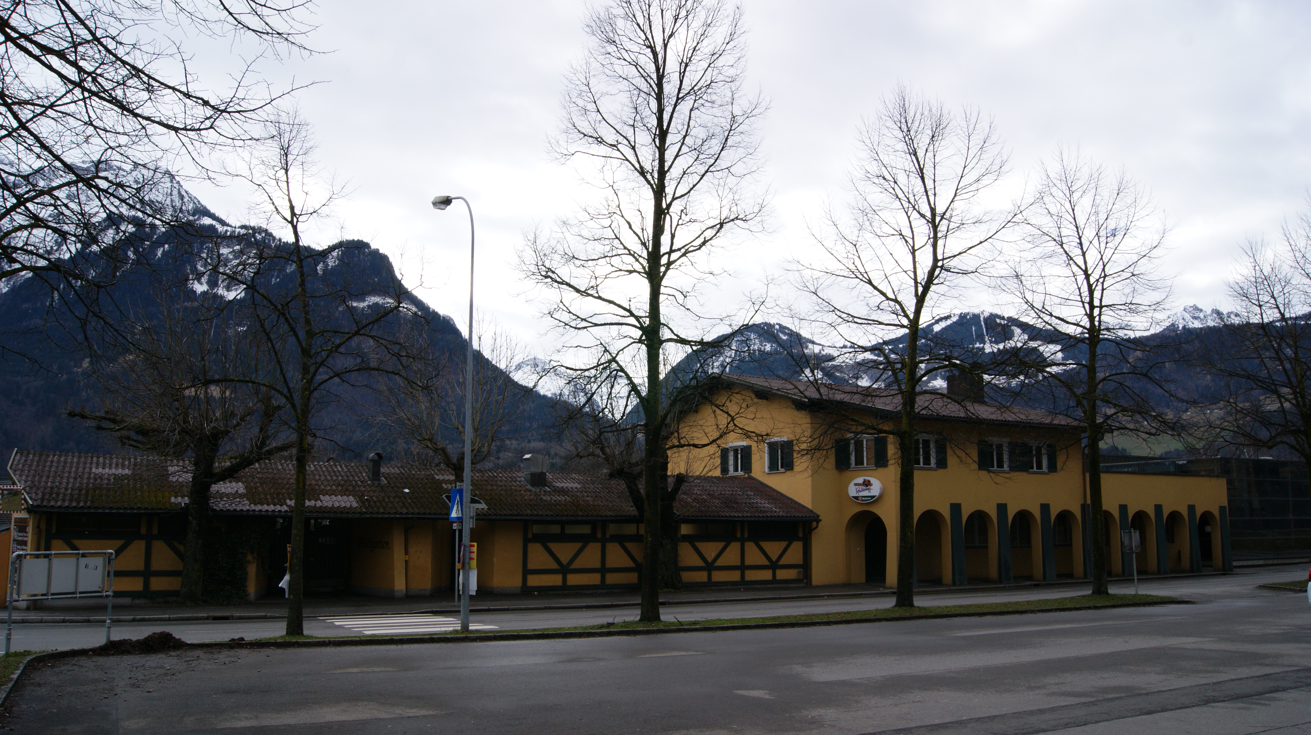 Inn Fohrenburg near the Fohrenburg brewery in Bludenz, Vorarlberg, Austria, Werdenbergerstraße No. 53 (L 190). Originally: "Bad Fohrenburg" (572 masl.)